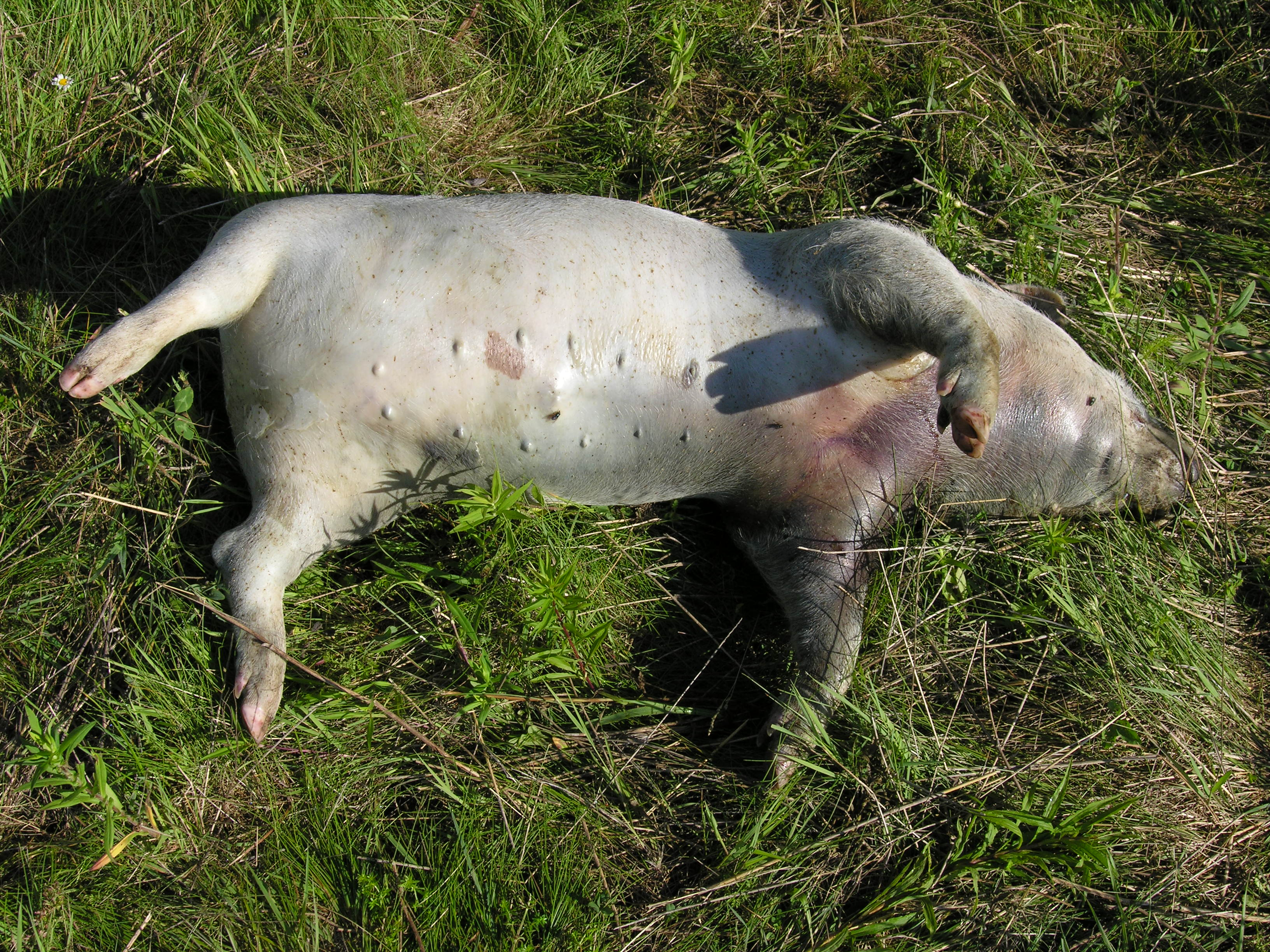 Example of a pig carcass (Sus scrofa) in the bloat stage of decomposition.